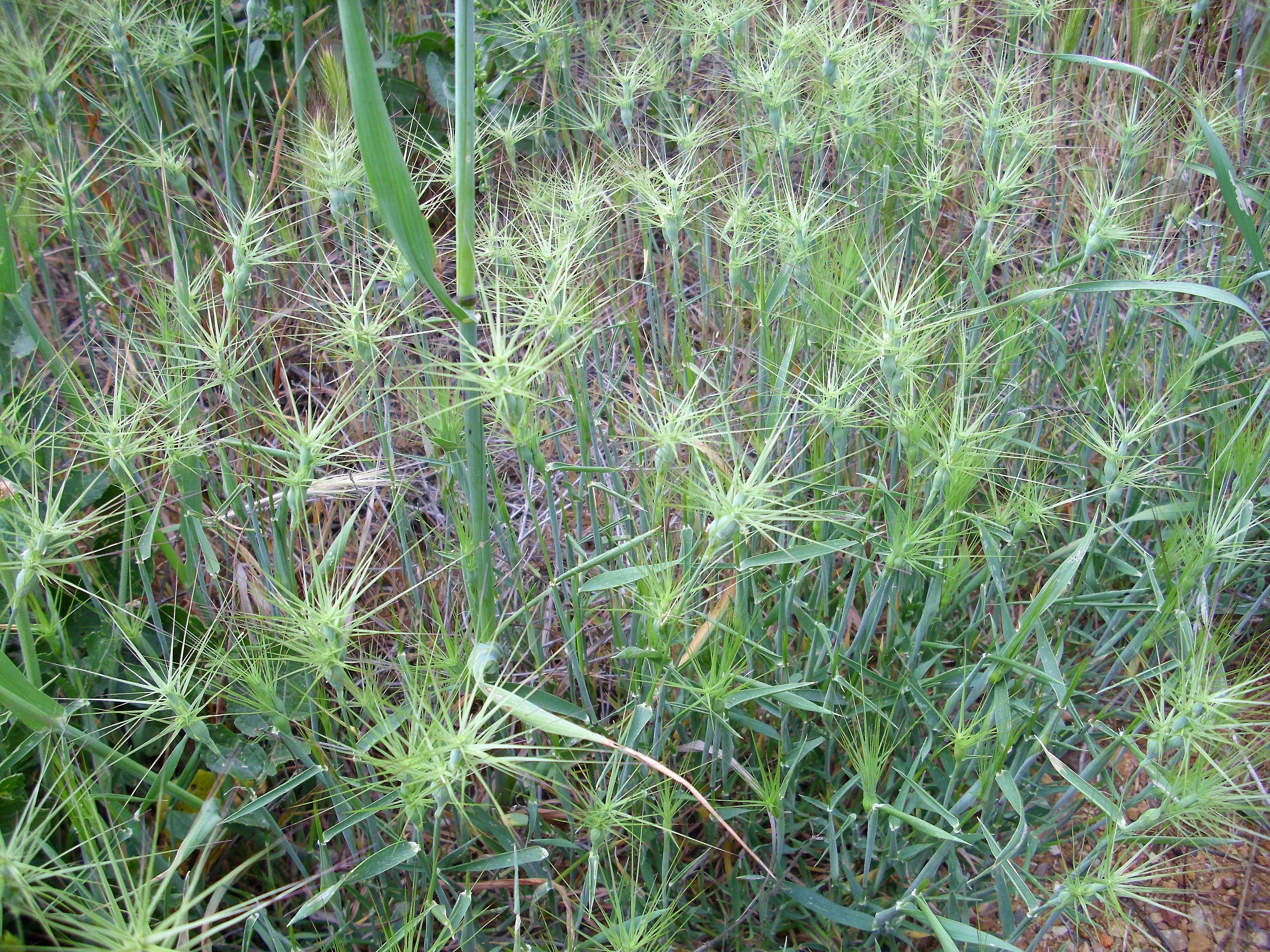 Aegilops geniculata habit, Dehesa Boyal de Puertollano, Spain